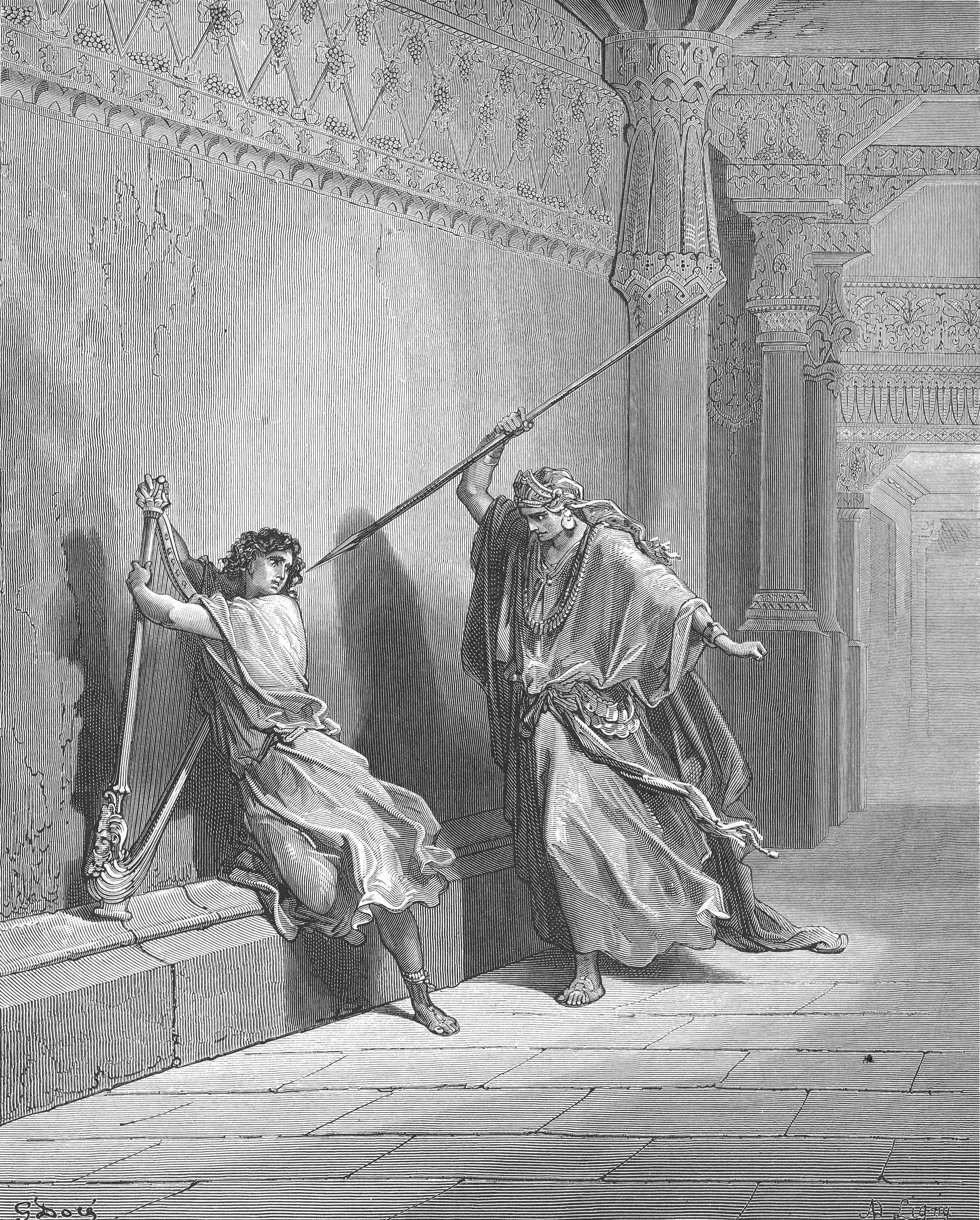 Saul Attempts to Kill David (1Sam. 18:6-14)